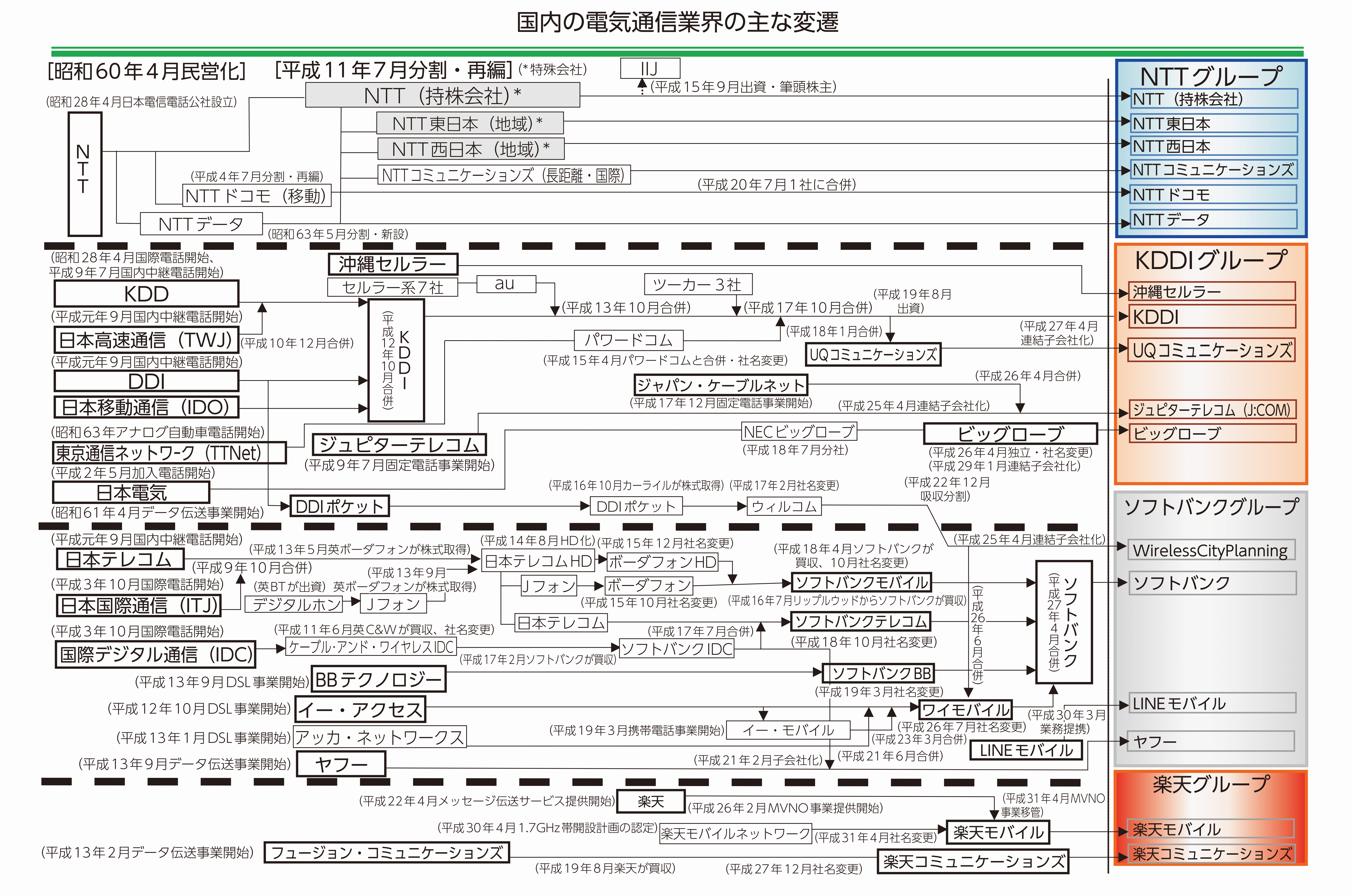 Major changes in the telecom industry in Japan.